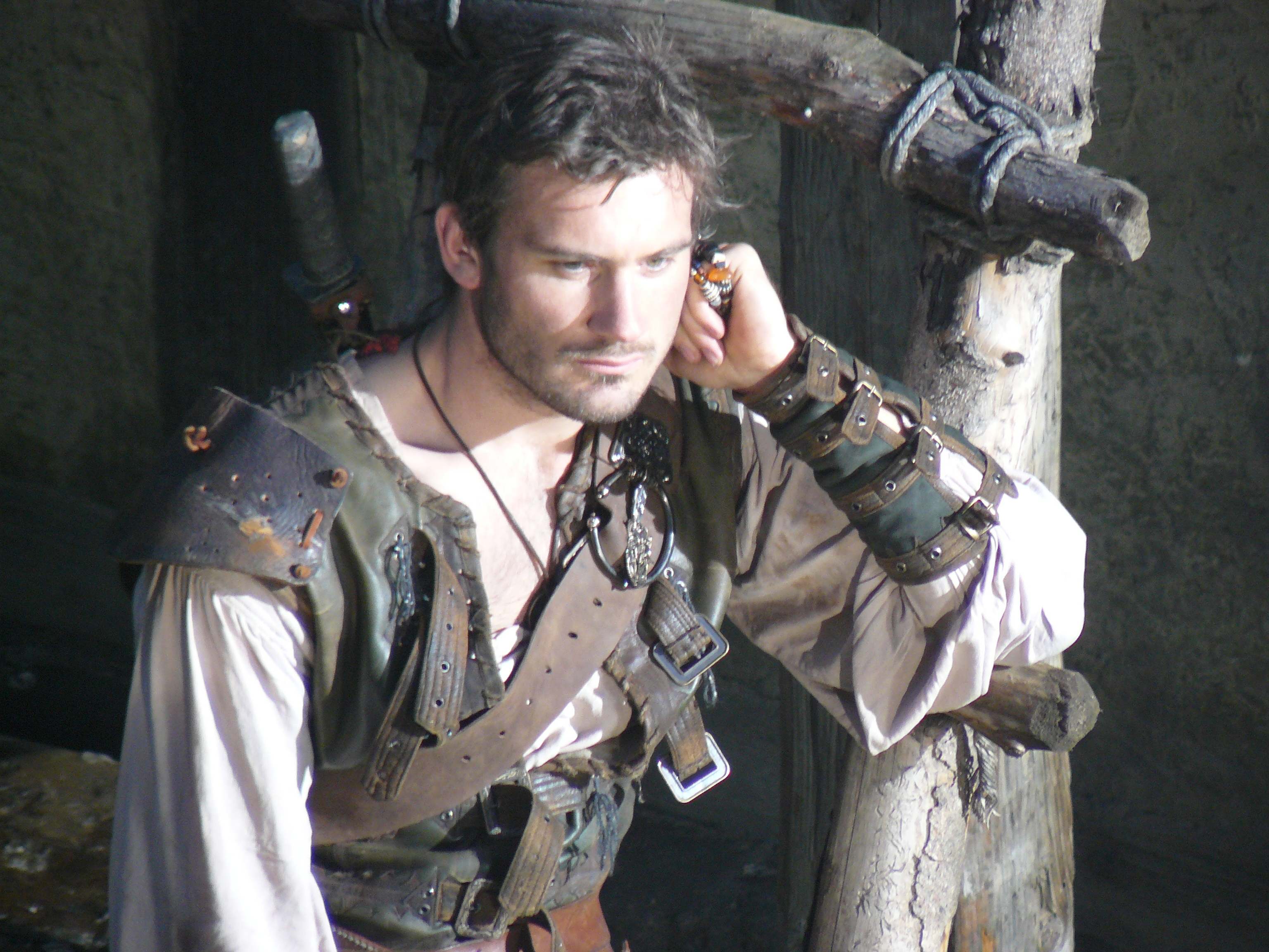 Clive Standen as Robin Hood